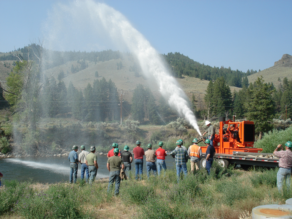 godwin pumps pumping